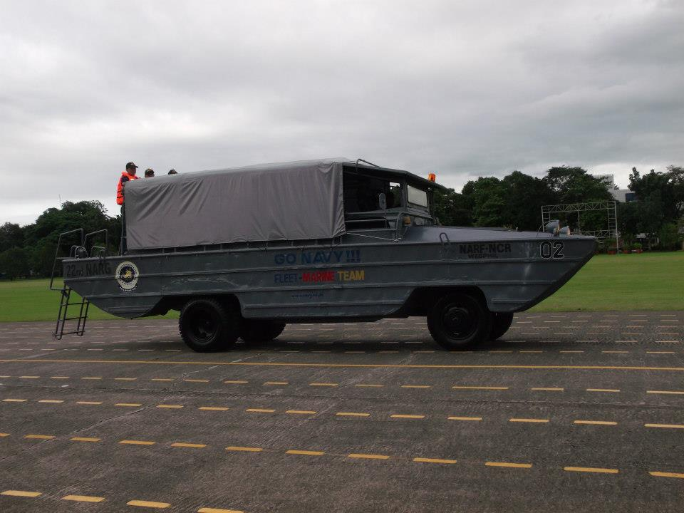 DUKW assigned with the 22nd Naval Affiliate Reserve Group, NAVRESCOM.